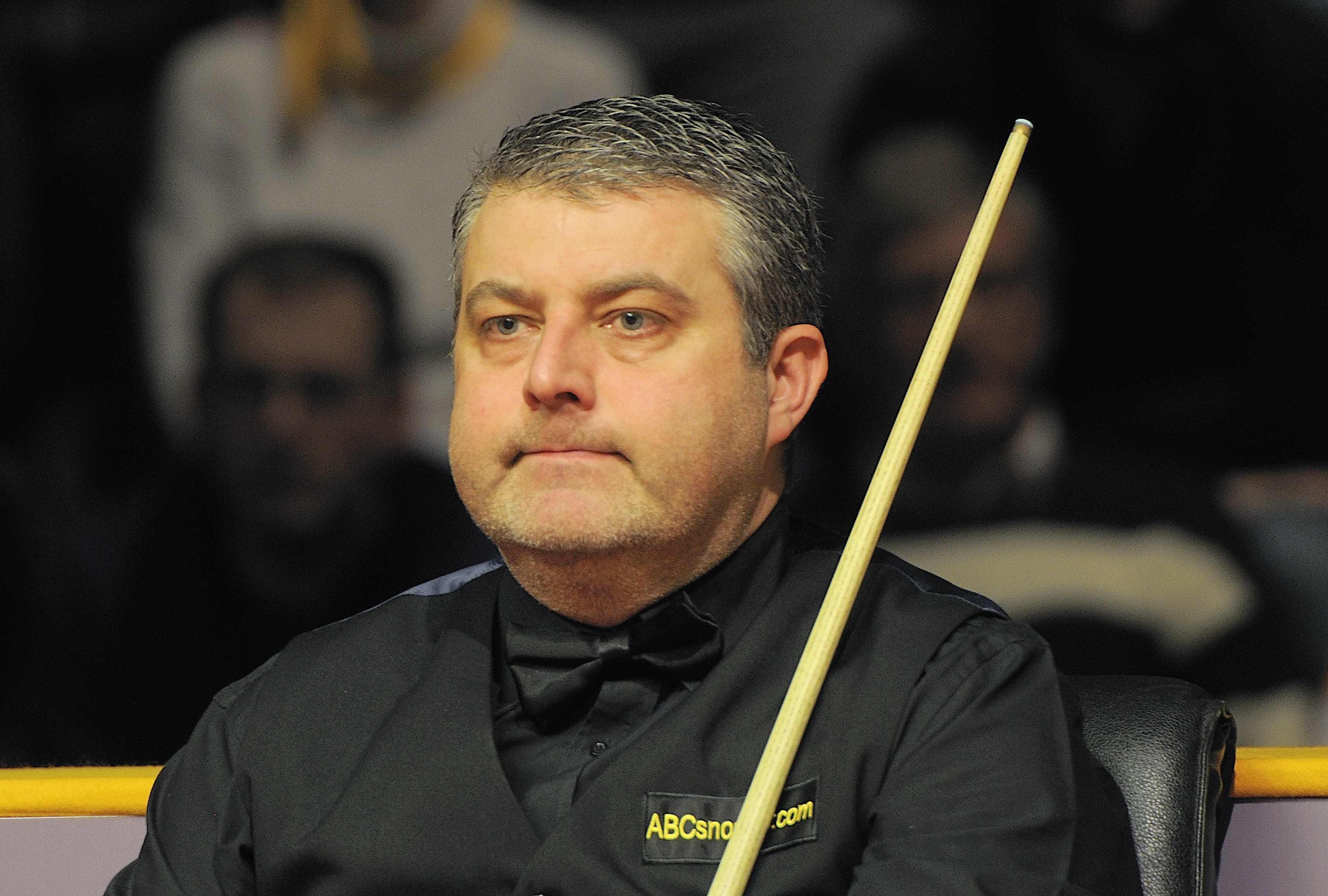 Picture taken in Berlin during the Snooker German Masters in 2014. Rod Lawler.